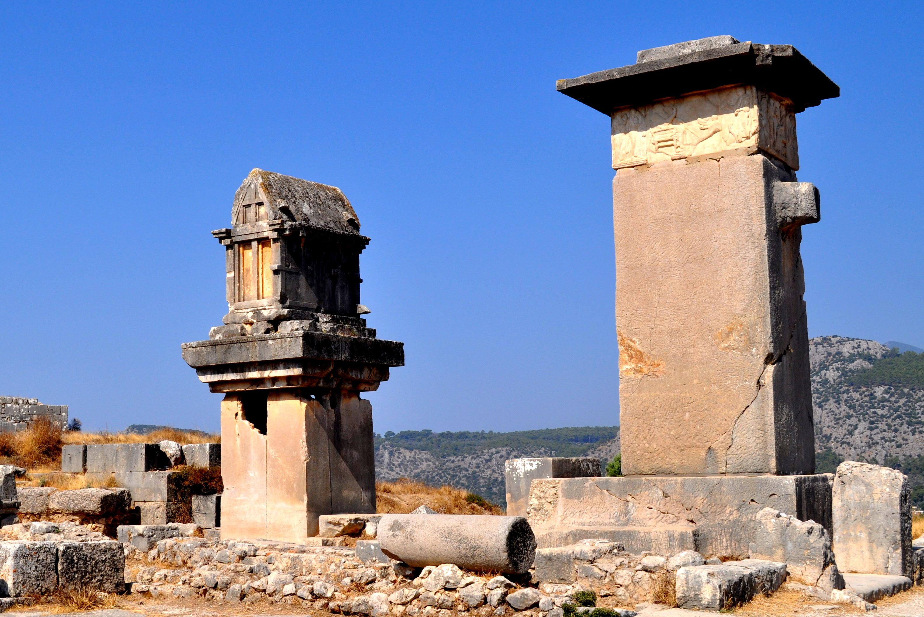 Xanthos sarcophagus and Harpy tomb